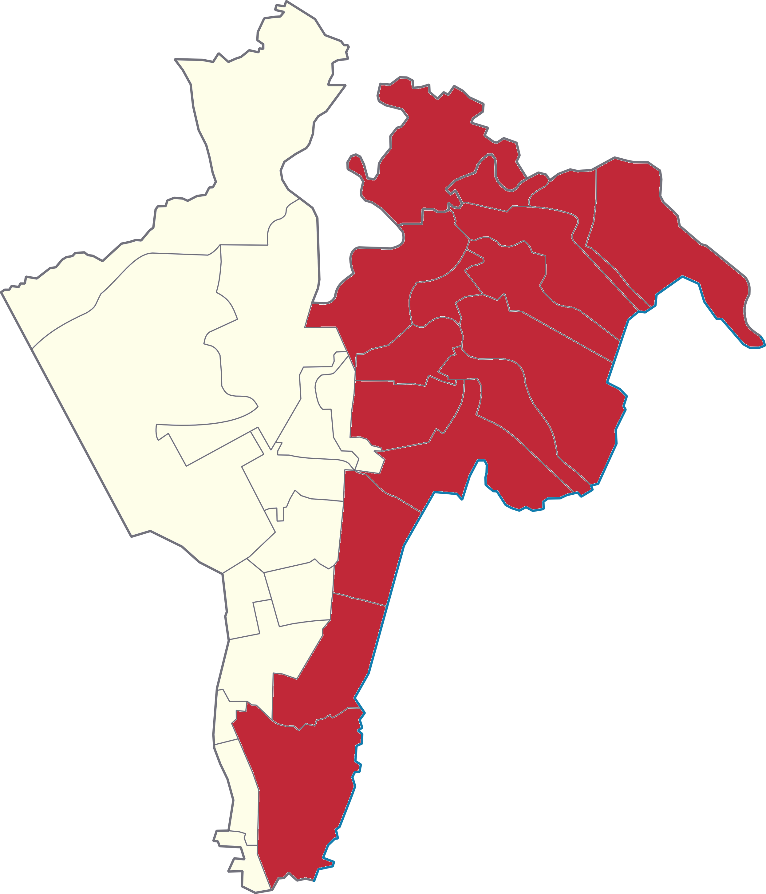 Location of the Lone legislative district of Taguig-Pateros, Philippines